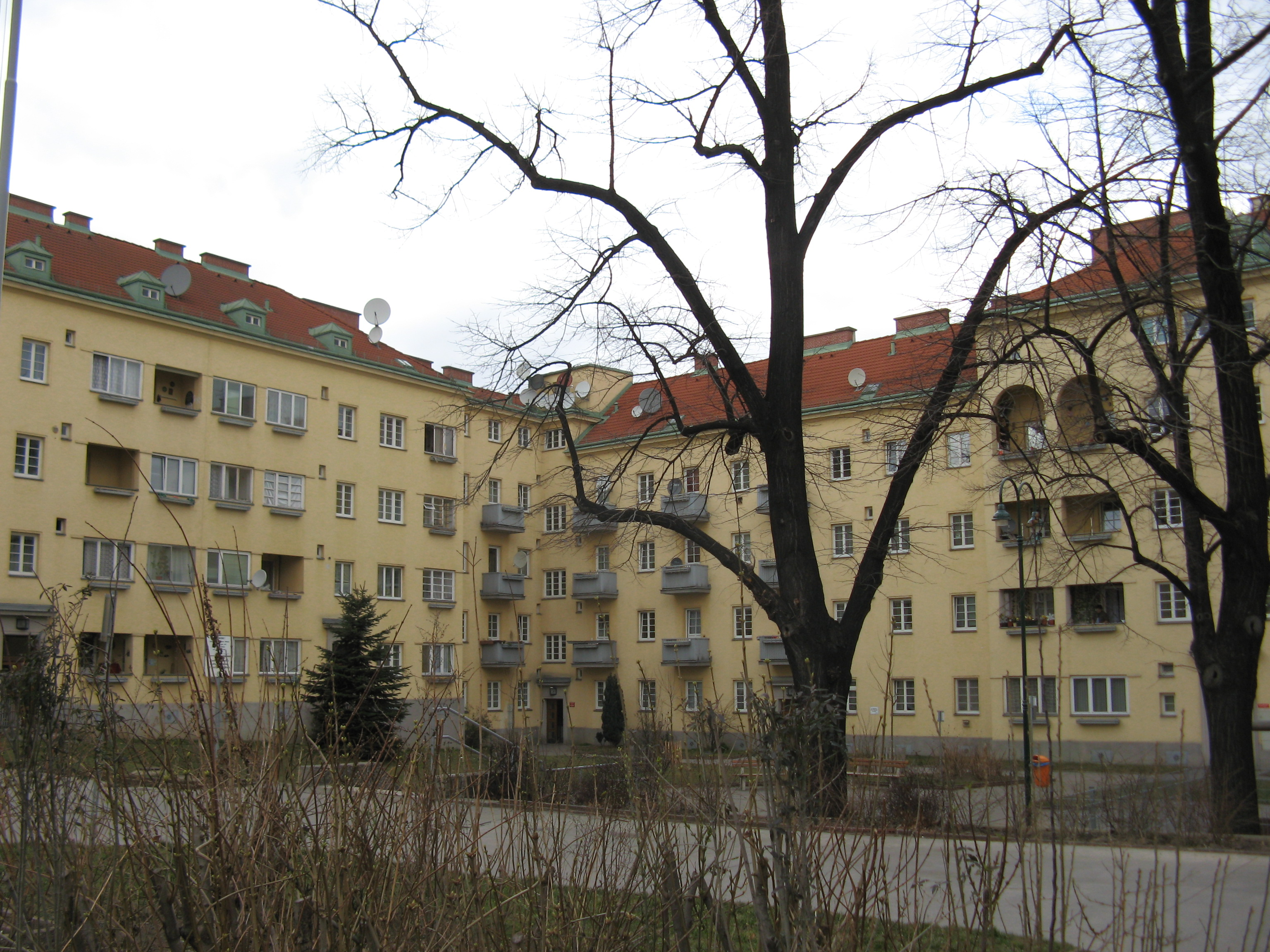 Simonyhof (1927-28) von Leopold Simony in Wien-Meidling